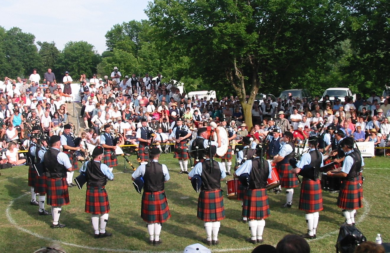 78th Fraser Highlanders at the 2003 Glengarry Highland Games